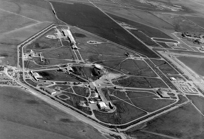 View of the Pantex Plant, Zone 11 Pantex Plant is located in Carson County 17 miles northeast of downtown Amarillo, Texas. The Pantex Plant facility consists of 10,177 acres owned by the Department of Energy (DOE). The Plant missions are the fabrication of chemical explosives for nuclear weapons, assembly of nuclear weapons for the nation's stockpile, maintenance and evaluation of nuclear weapons in the stockpile, disassembly of nuclear weapons being retired from the stockpile, demilitarization and sanitization of weapon components from dismantlement activities, and interim storage of plutonium components from retired weapons. Pantex is composed of several functional areas, commonly referred to as numbered zones. These zones include an area for experimental explosive development (Zone 11)